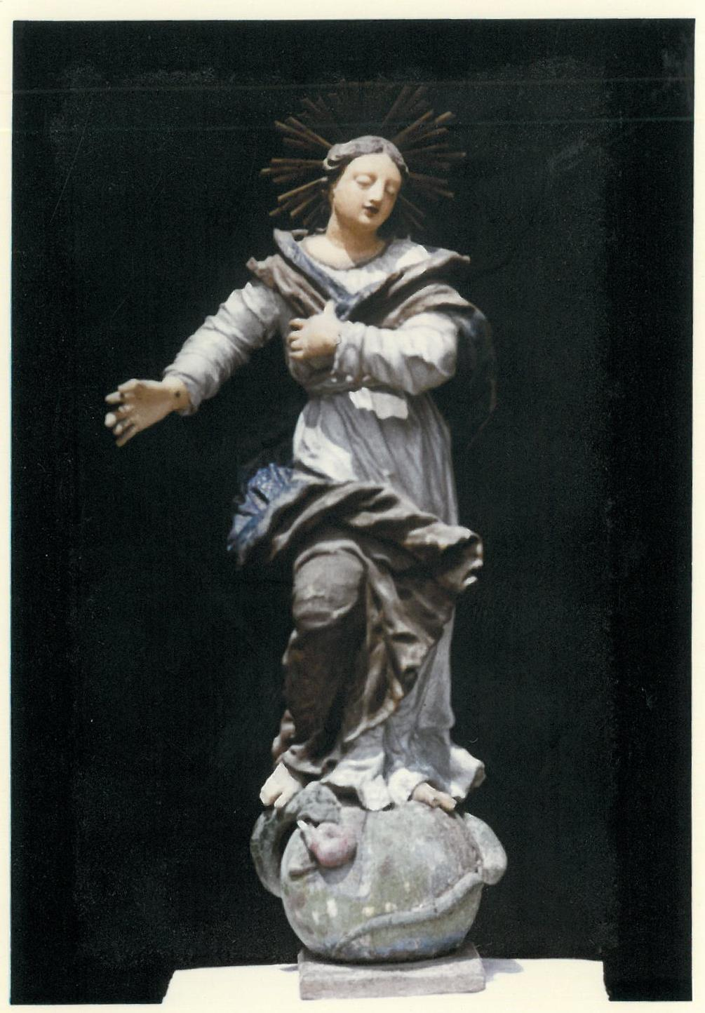 Madonna by Anselm Storr OSB, created in 1702, originally coloured, formerly in the niche above the main entrance of the " New House" in Schelklingen